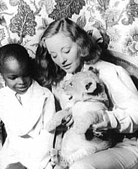 Actress Tallulah Bankhead and child actor Julius Perkins, Jr. — with a lion cub. Actress Tallulah Bankhead and Julius Perkins, Jr. July 15, 1941.